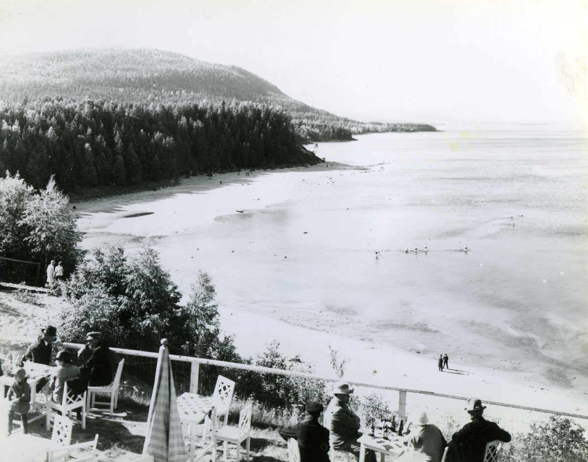 Visitors enjoying the view over the beach of Orbaden in 1919